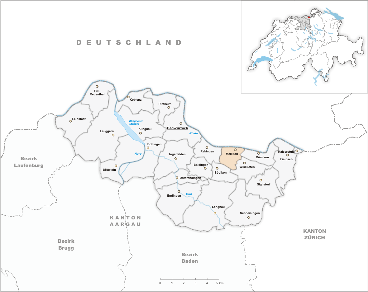 Municipality Mellikon